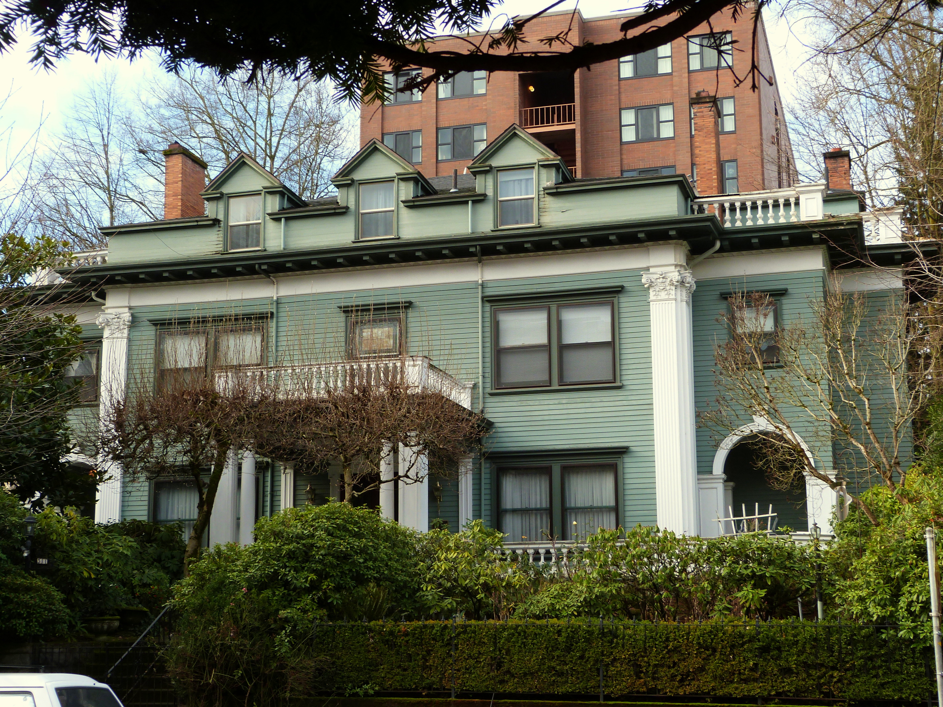 The historic Isam White House (built 1904), located at 311 Northwest 20th Avenue in Portland, Oregon, United States, is listed on the US National Register of Historic Places. Additionally, it is listed as a contributing resource in the National Register-listed Alphabet Historic District.